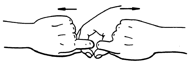 Fig. 2 from US Patent 5188107